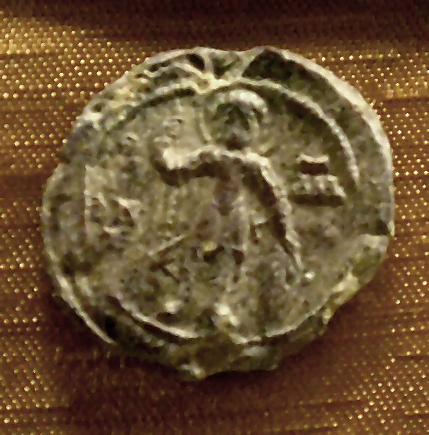 Seal of Dawid Igorewicz